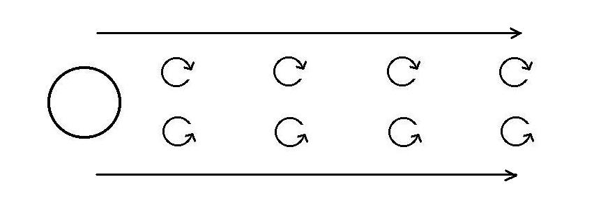 Karman symmetric vortex hypothesis